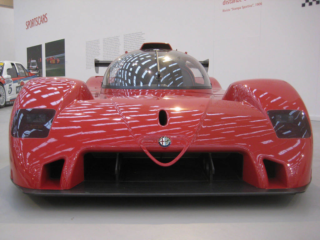 Alfa Romeo Group C (1992)